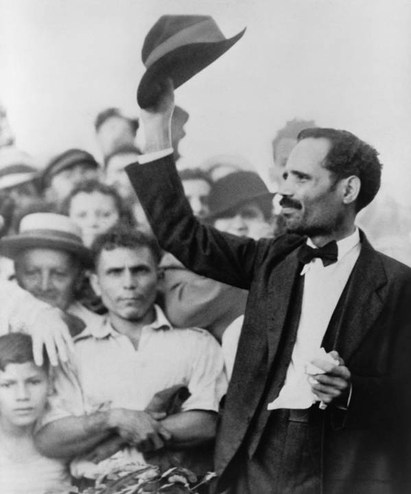 Pedro Albizu Campos raising his hat to a crowd.